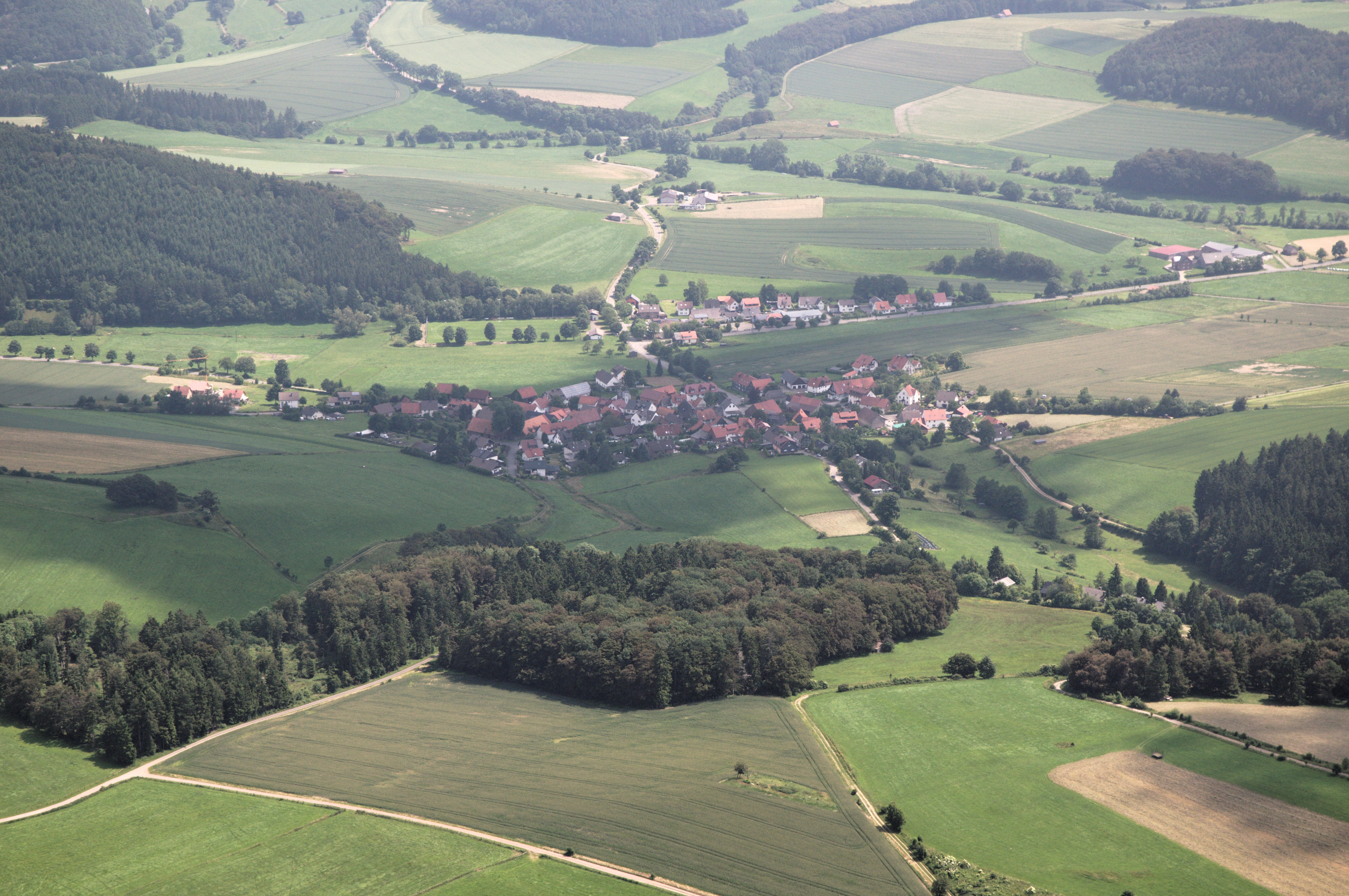 Fotoflug Sauerland-Ost, Gemeinde Diemelsee-Stormbruch The making of this document was supported by the Community-Budget of Wikimedia Germany.